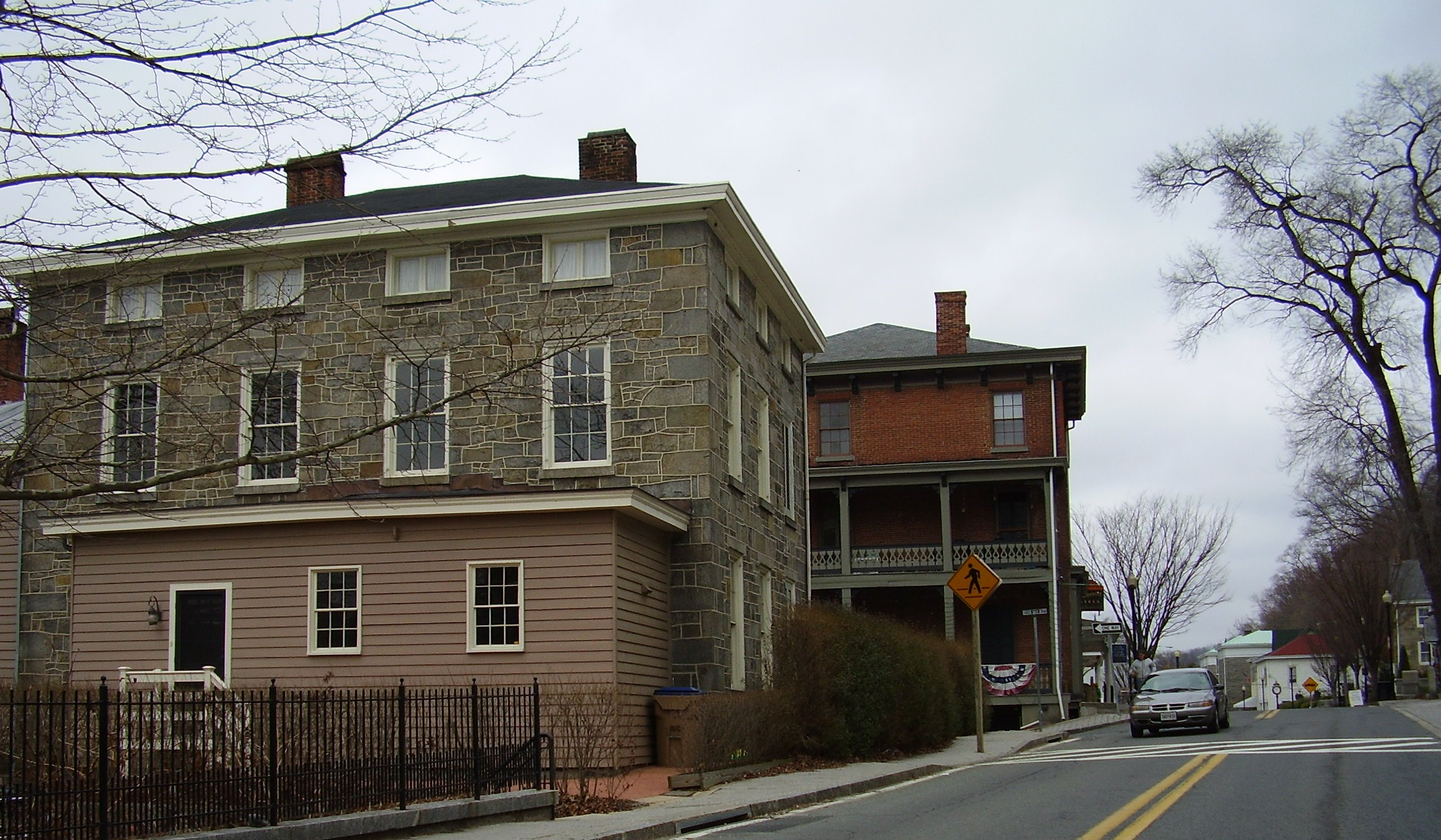 Historic houses in Port Deposit, Maryland. Uploaded by photographer. All rights released. Williamborg 01:23, 28 March 2007 (UTC)